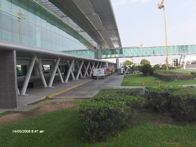 CULIACAN AIRPORT